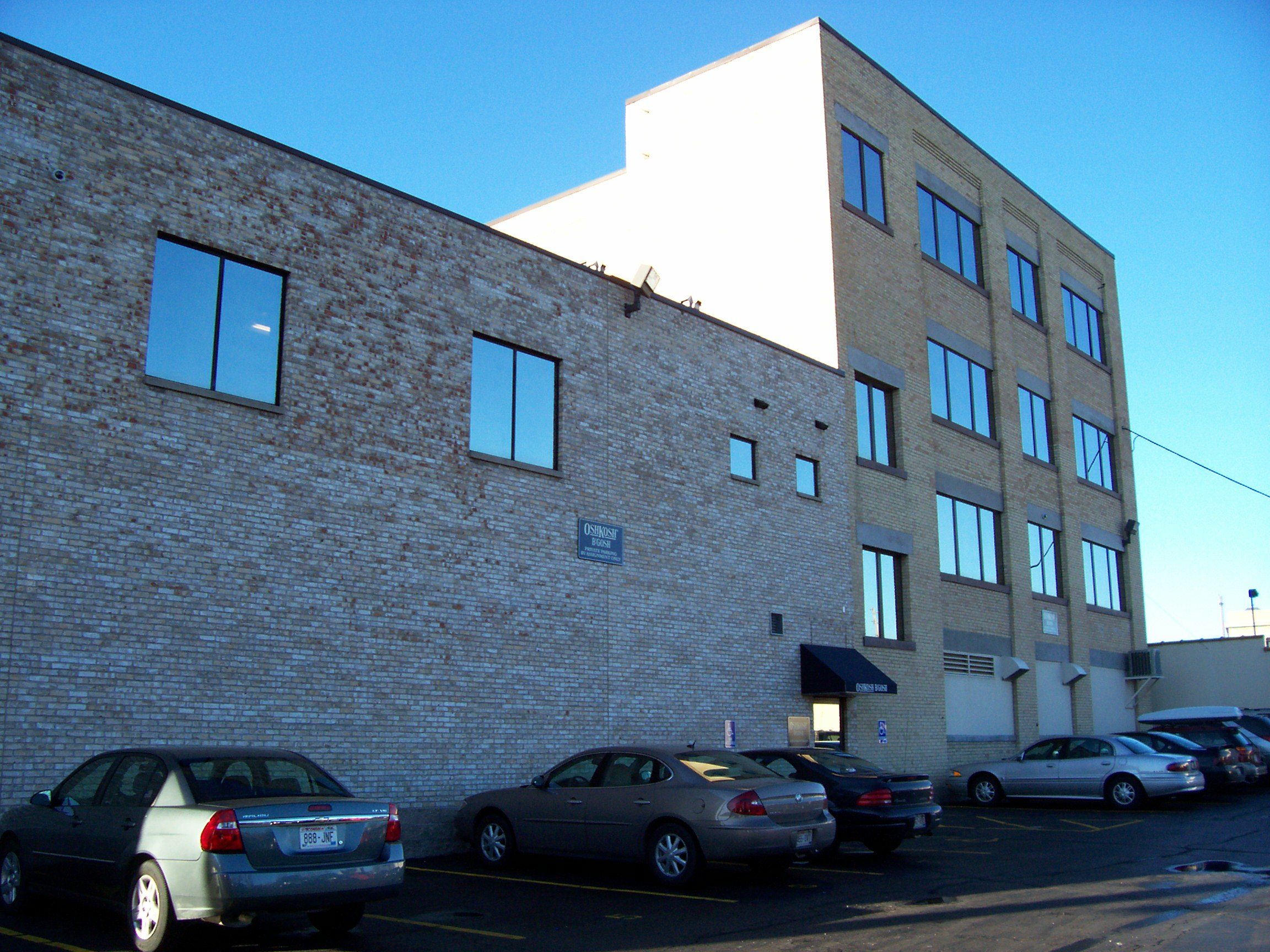 Looking north at the Oshkosh B'Gosh corporate headquarters in Oshkosh, Wisconsin, USA.